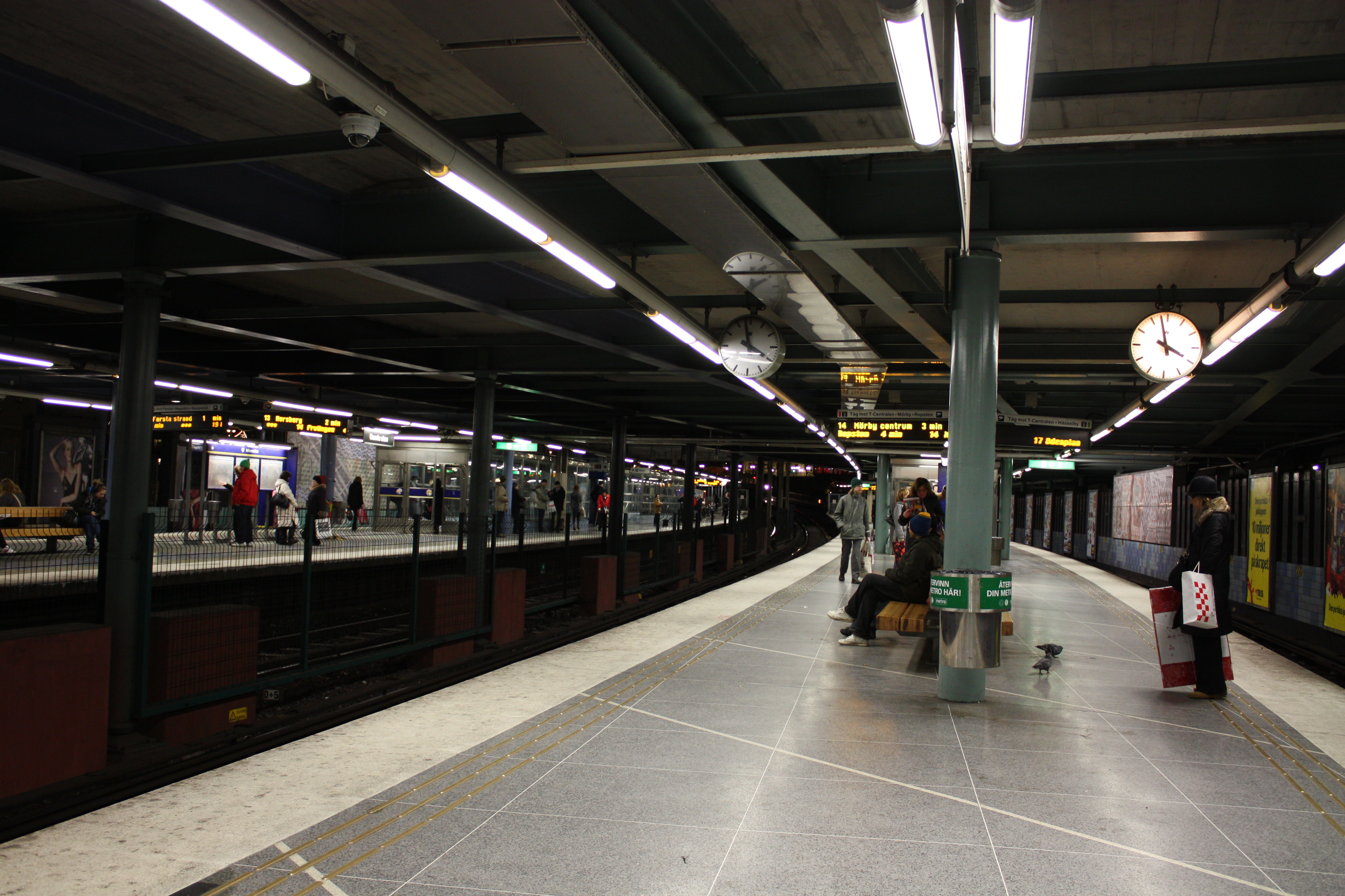 Gamla stan metro station in Old Town Stockholm